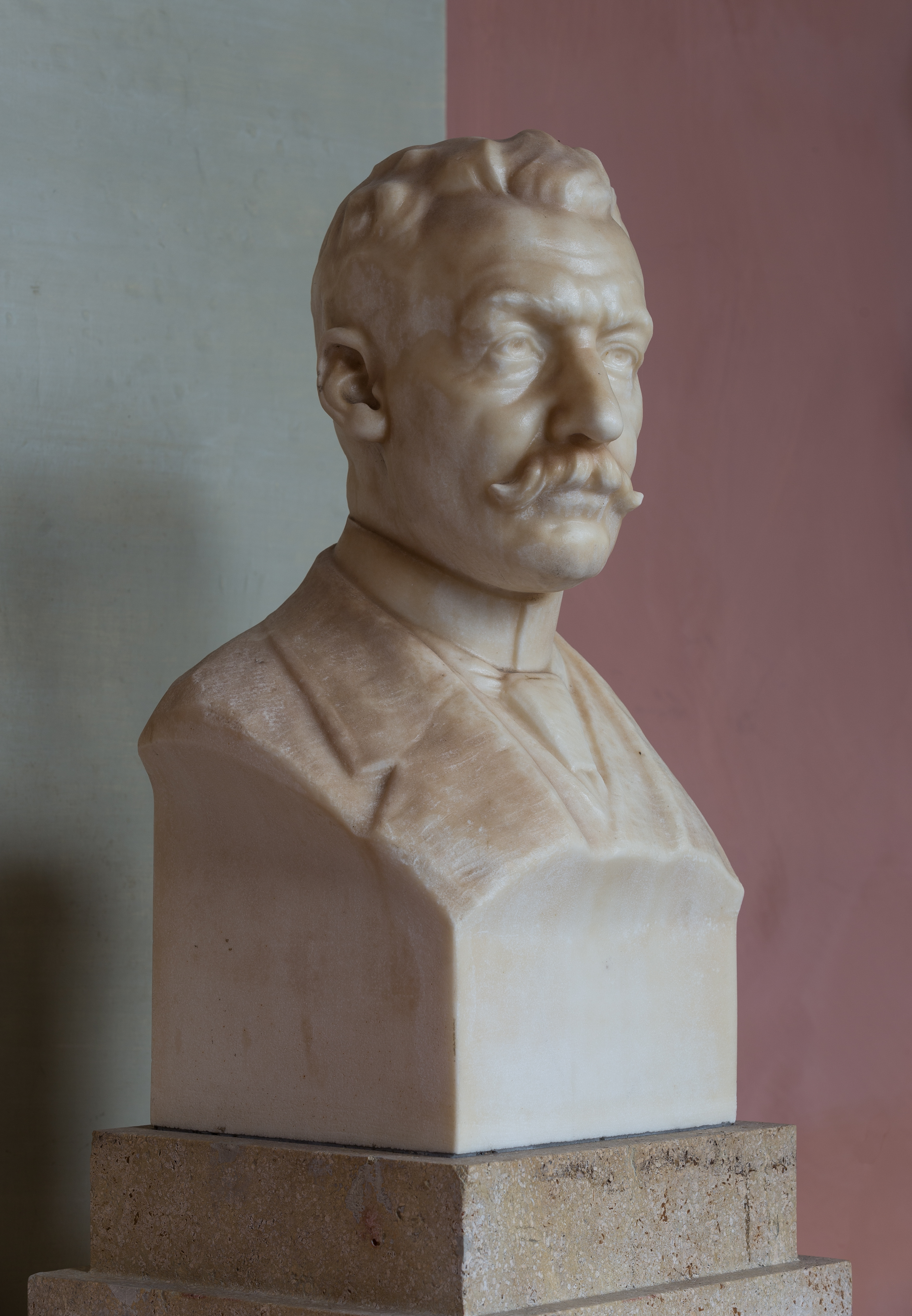 Franz Klein (1854-1926), bust (marble) in the Arkadenhof of the University of Vienna, (Maisel# 68). Artist: Hermann Haller (1880-1950), unveiled 1937